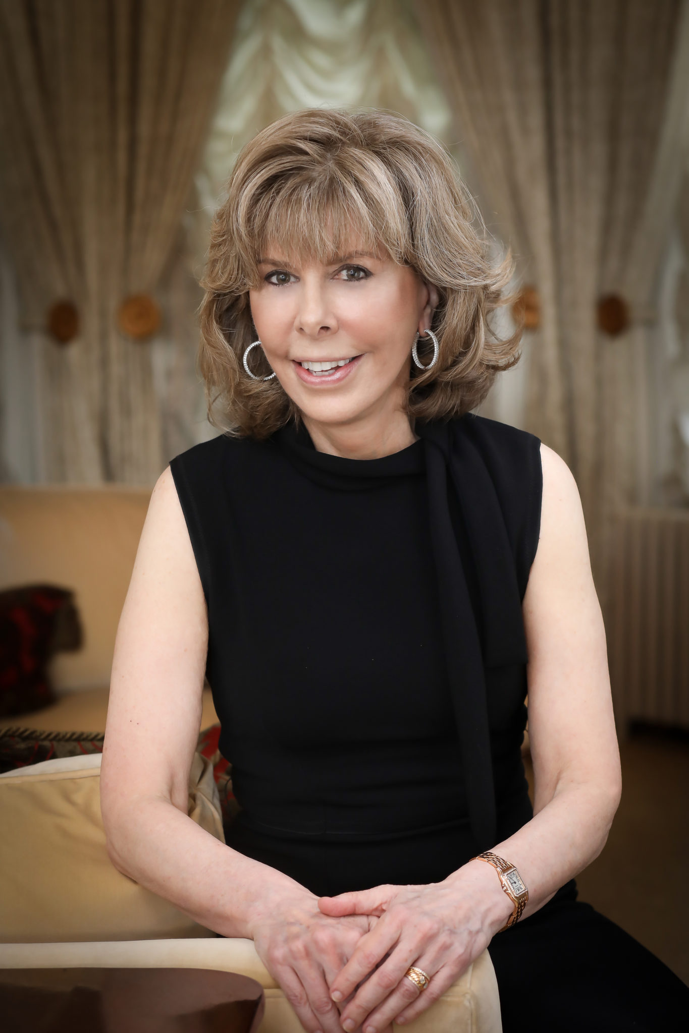 Jane Stanton Hitchcock. October 2, 2018